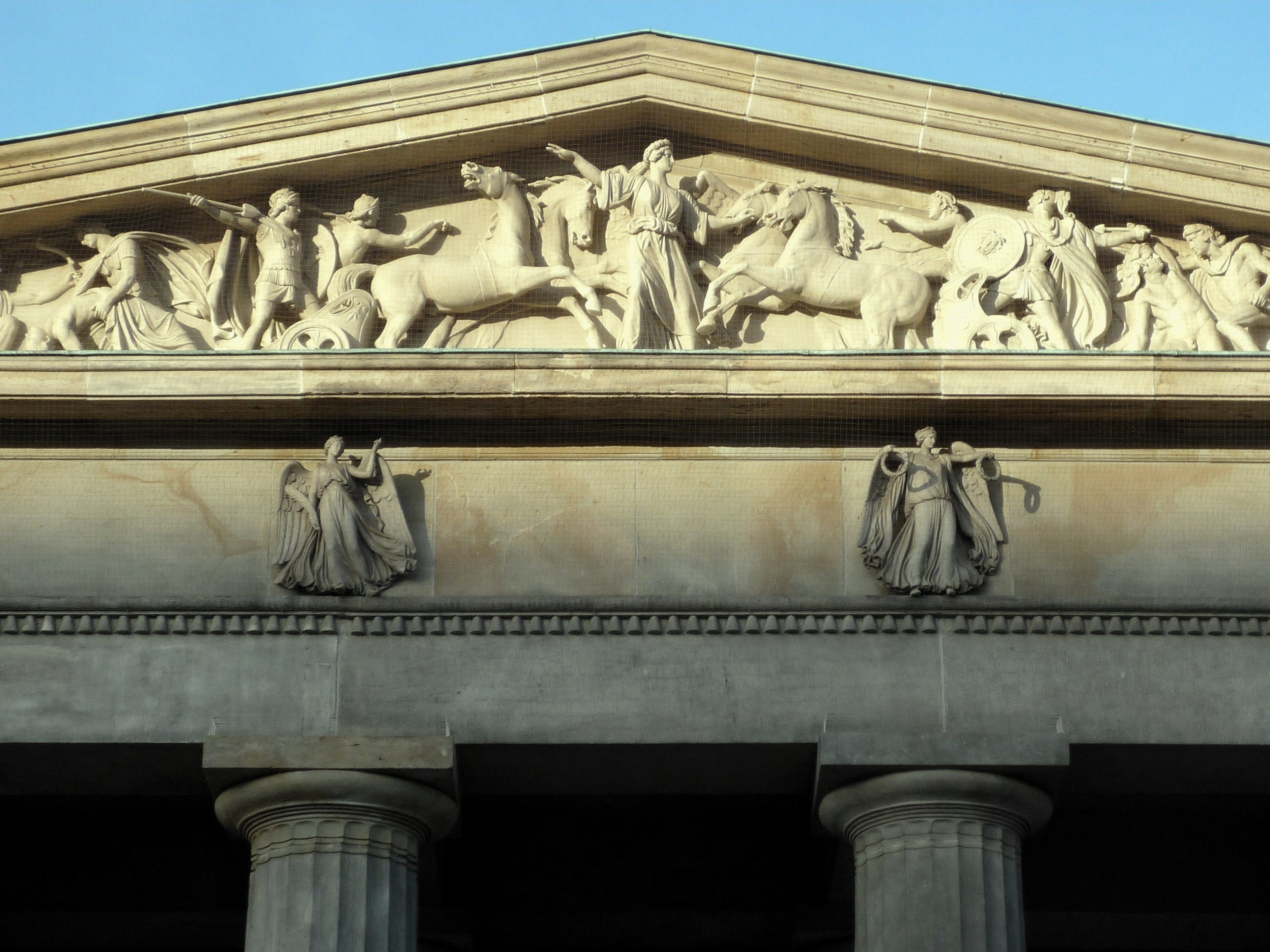 The "Neue Wache" Berlin, built by Karl Friedrich Schinkel (1781-1841). Relief in the tympanum.